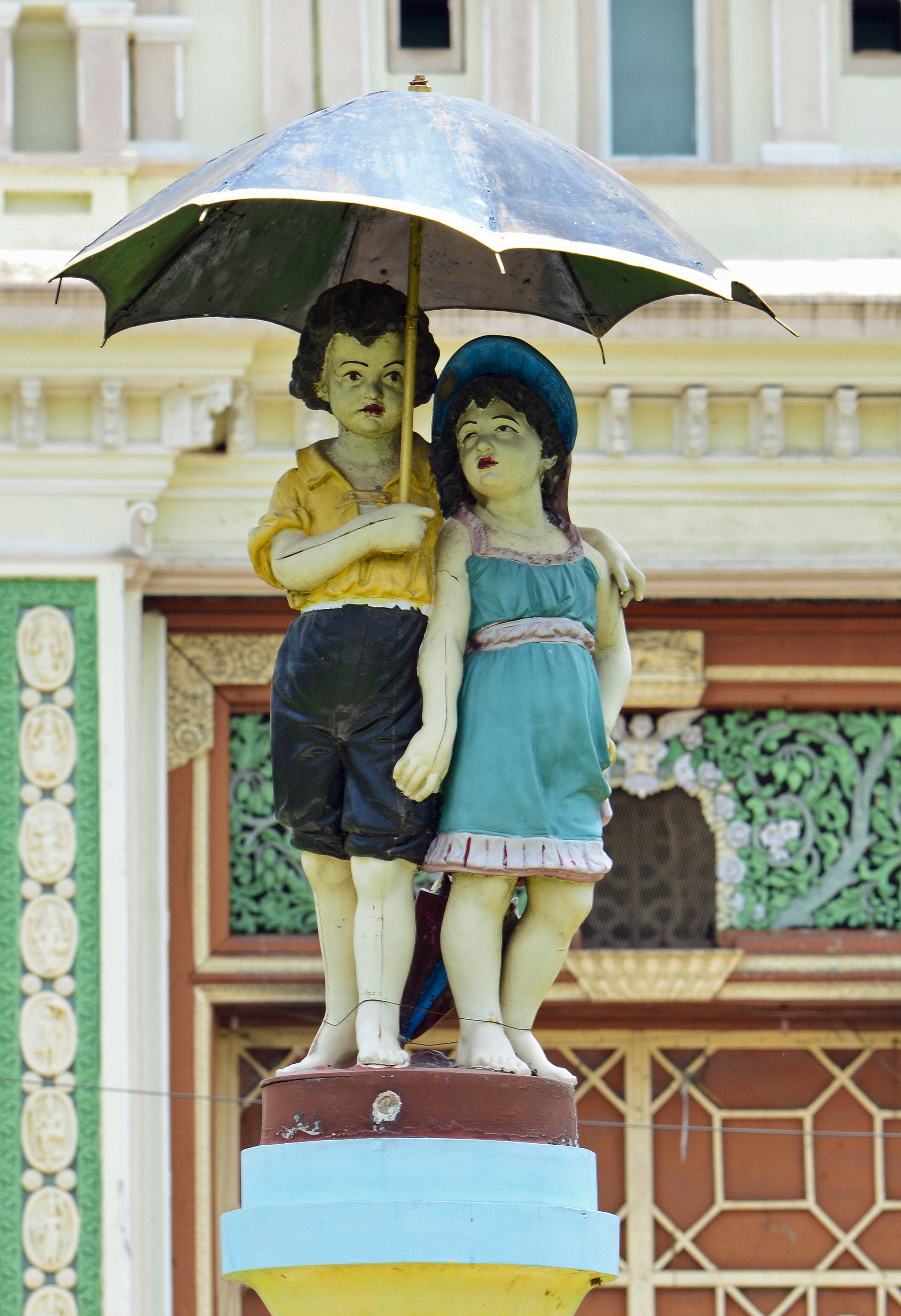 Statue of children with umbrella outside the Jaganmohan Palace, Mysore